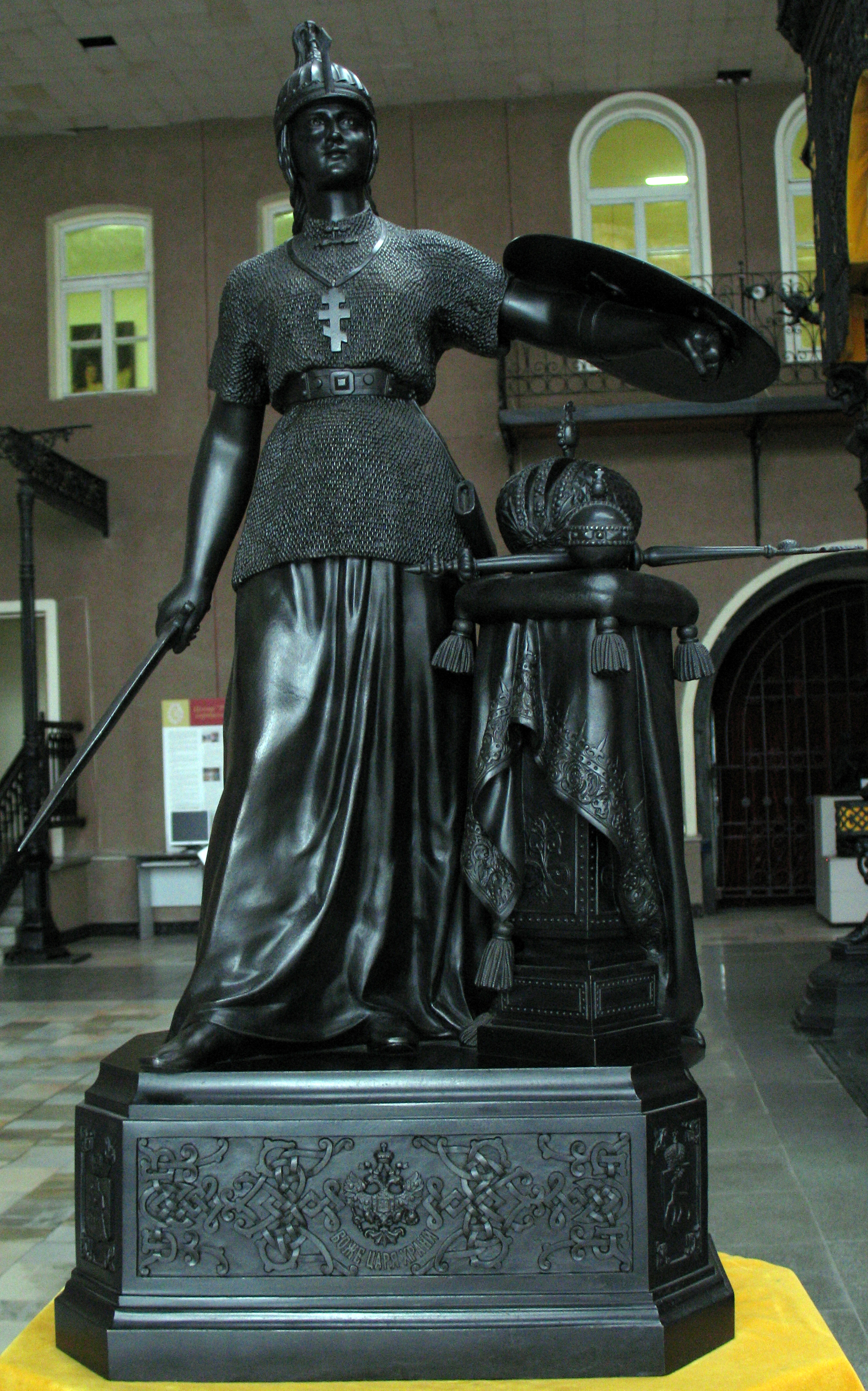 Nicholas Akimovich Laveretsky (1837-1907): Sculpture "Russia", 1896